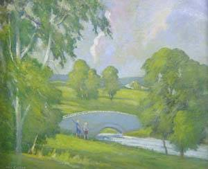 William John Coffee painting